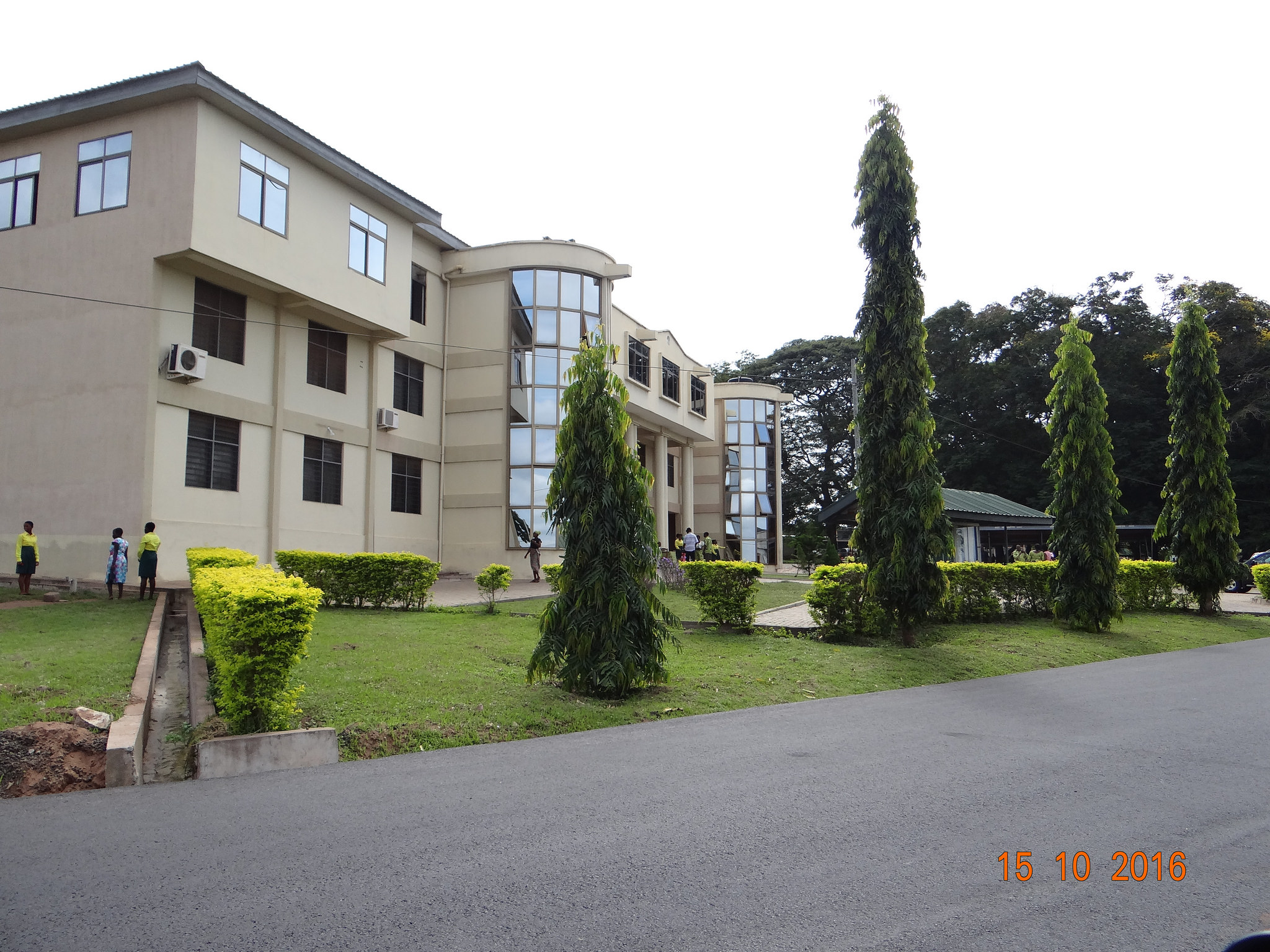 Mawuli School